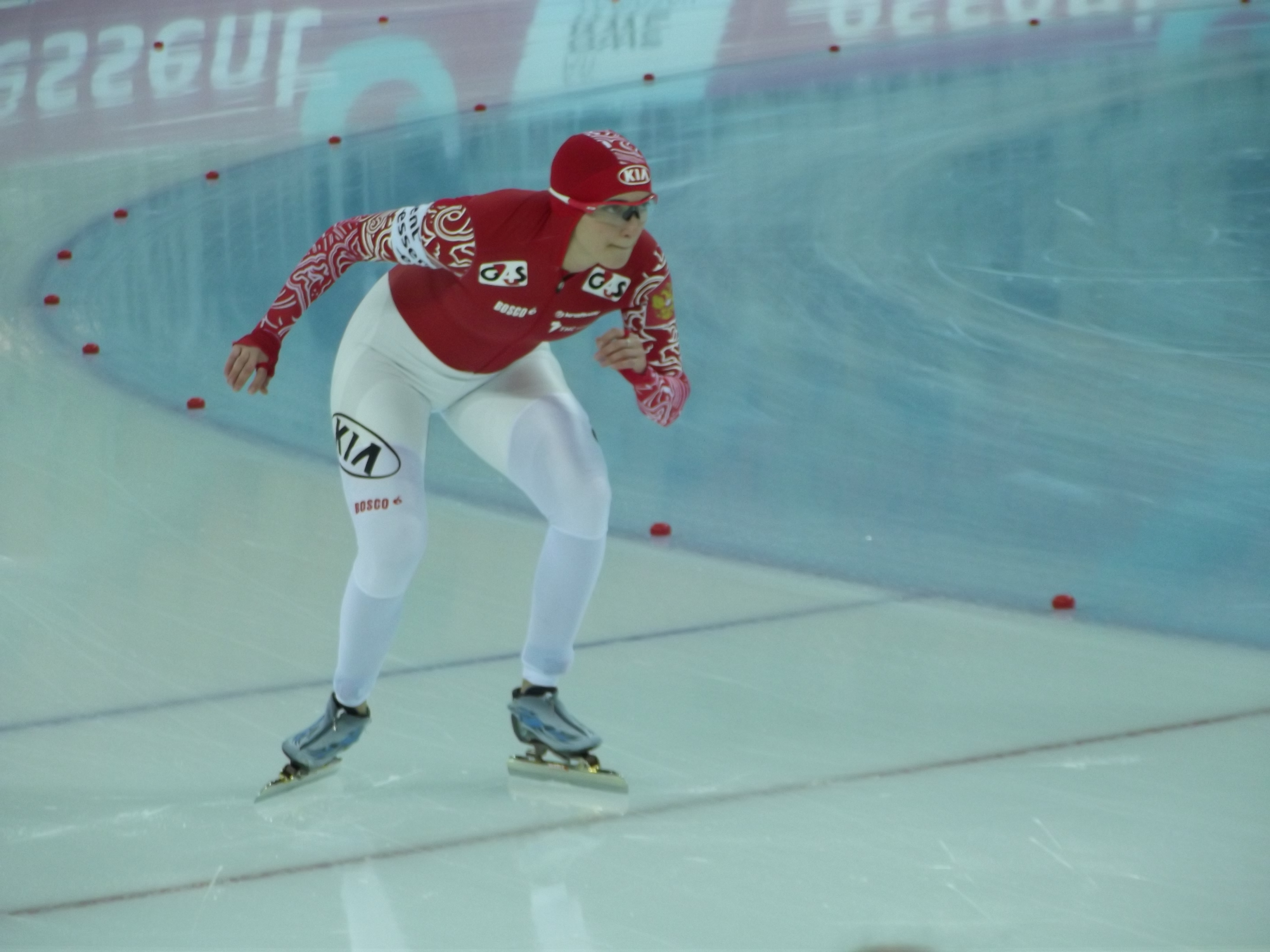 2013 World Single Distance Speed Skating Championships